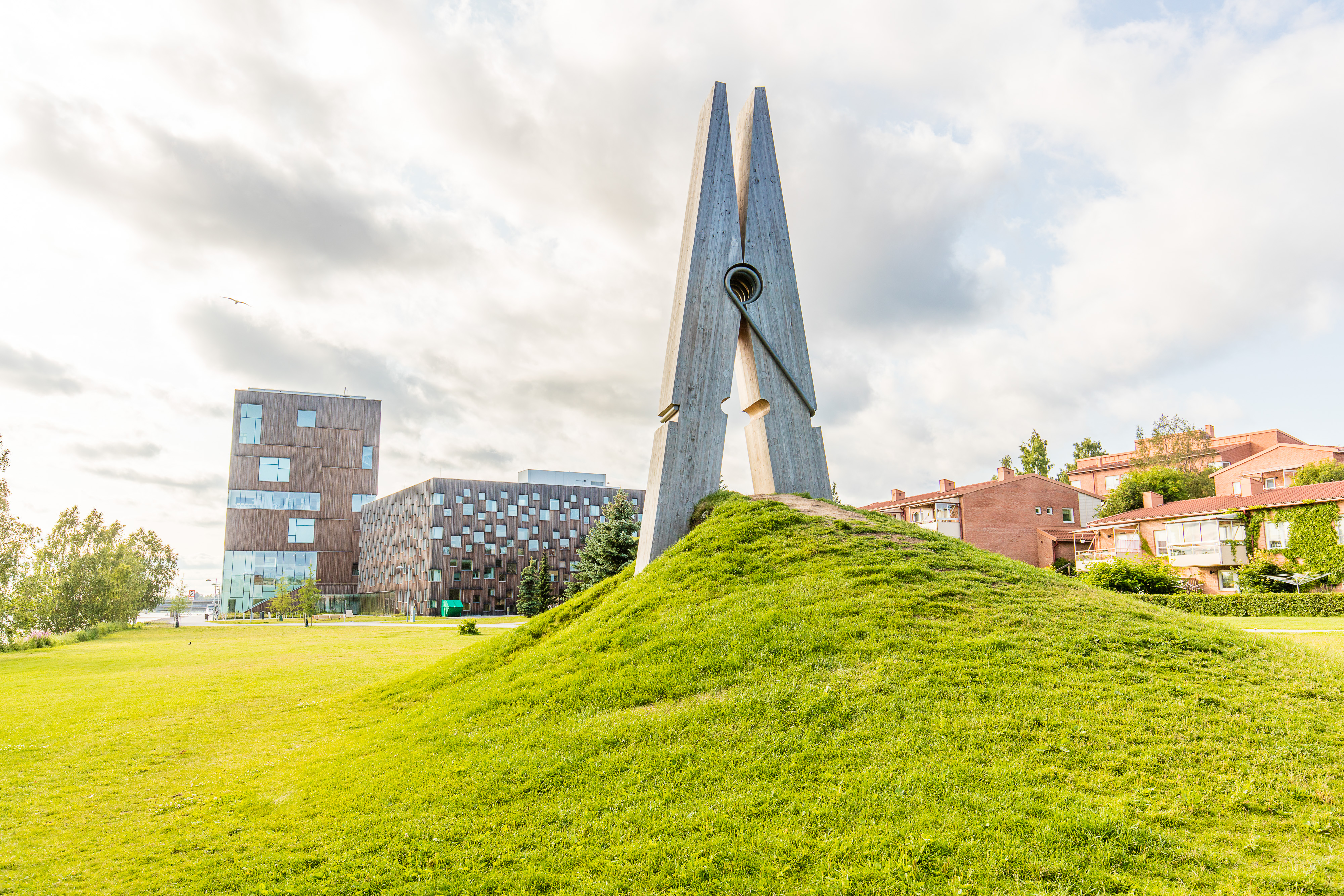 The sculpture "Skin 4" by Mehmet Ali Uysal in Öbackaparken, next Umeå Arts Campus – with Bildmuseet (the Museum of Contemporary Art) in the background